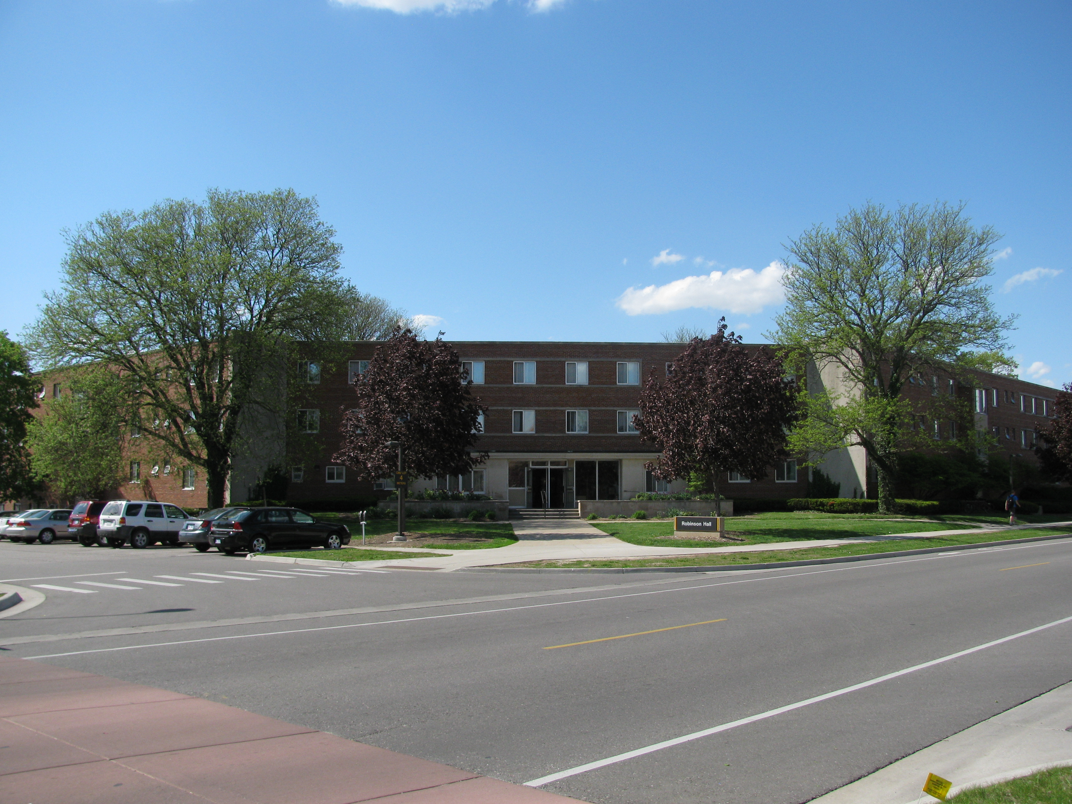 This is a picture of Robinson Hall